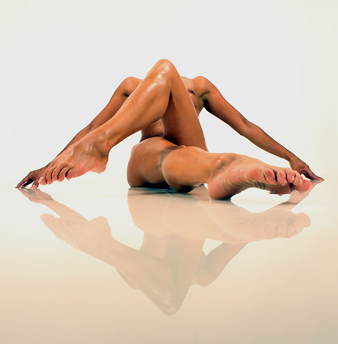 Water reflection photography by Manfred Kielnhofer contemporary fine art photography